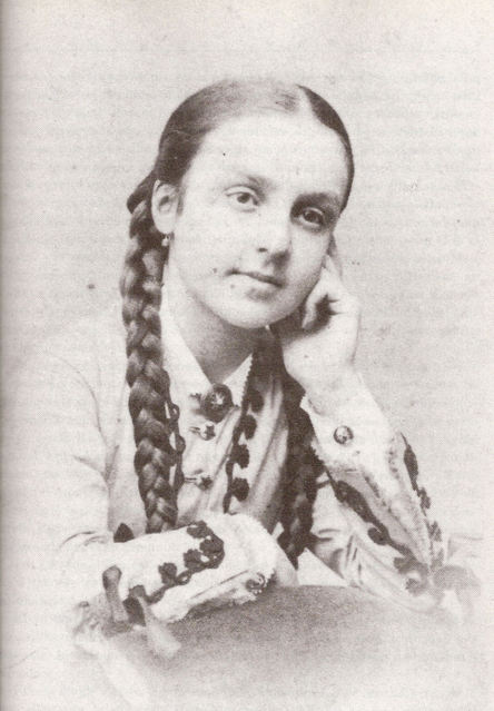 Maria de las Mercedes de Orleans y Borbón